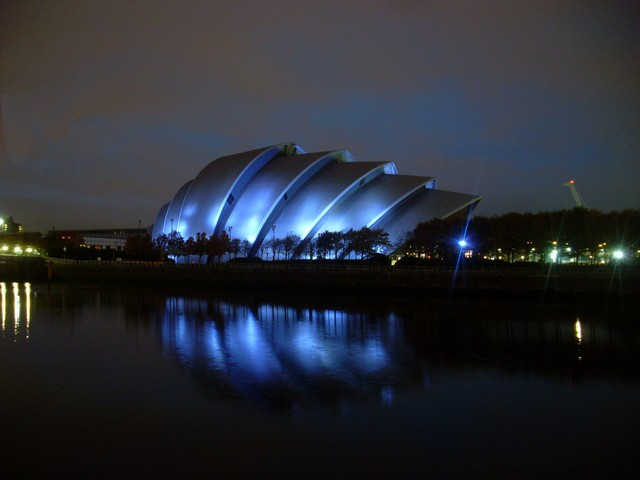 Clyde Auditorium from across the Clyde Stunningly lit up at night, the Clyde Auditorium as seen from Pacific Quay.